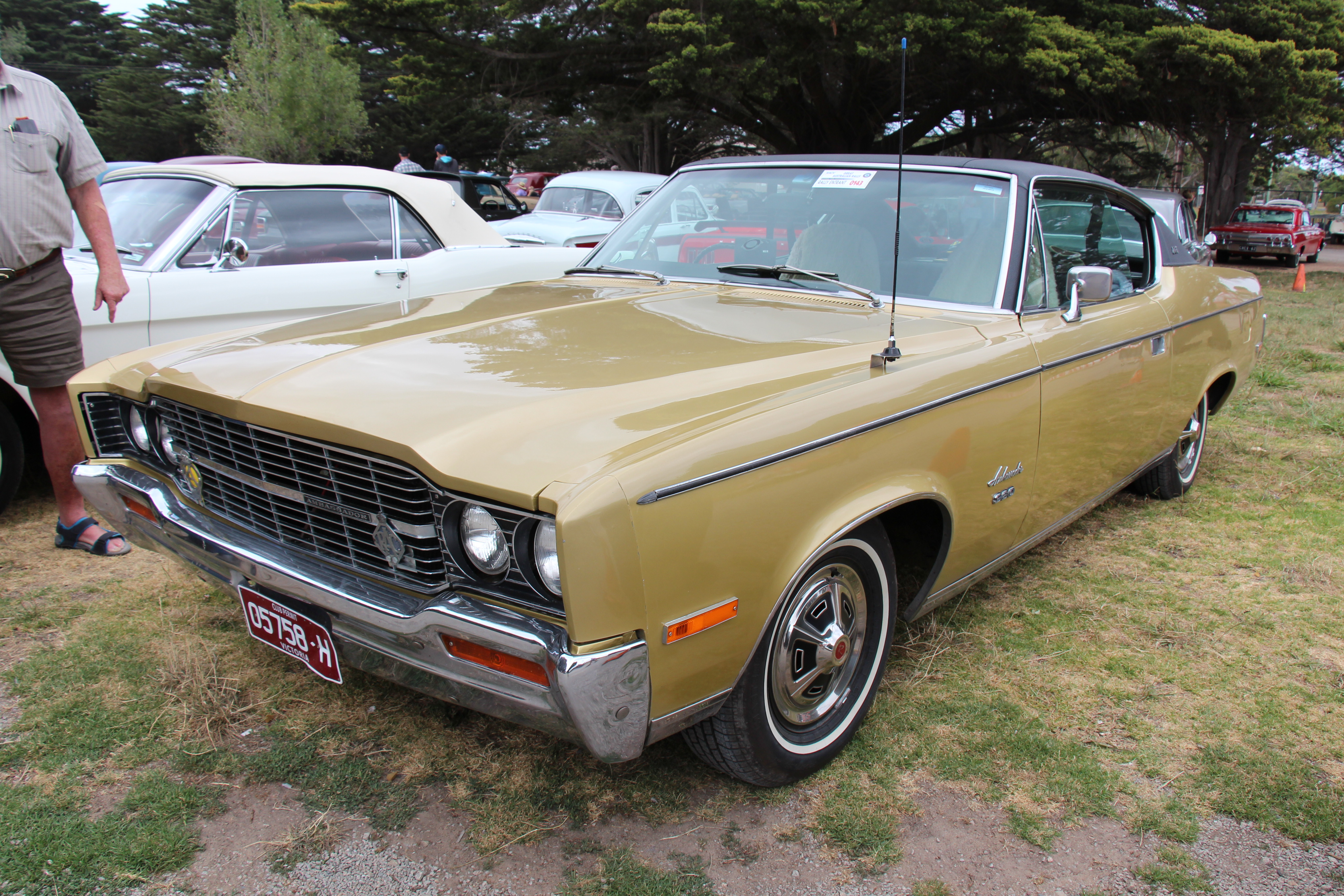 The Ambassador was the top-of-the-line automobile produced by the American Motors Corporation (AMC) from 1958 until 1974. Most of these cars were built in the US, but Australian Motor Industries (AMI) assembled Ambassadors from knock-down kits with right-hand drive. This is the 7th generation Ambassador, introduced in 1969, it was longer and wider, the front end revised with quad headlights and the hood was redesigned to accommodate the grille's raised center portion, the grille leaned forward slightly For 1970, the rear half of Ambassador hardtop coupes and sedans were updated, on hardtop coupes, they got a sloping roofline that saw upswept reverse-angle quarter windows Engine; 210hp 290, 260hp 360 or 325hp 390 cu in